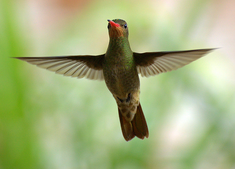 Gilded Hummingbird (Hylocharis chrysura). (Originally identified as Amazilia fimbriata)